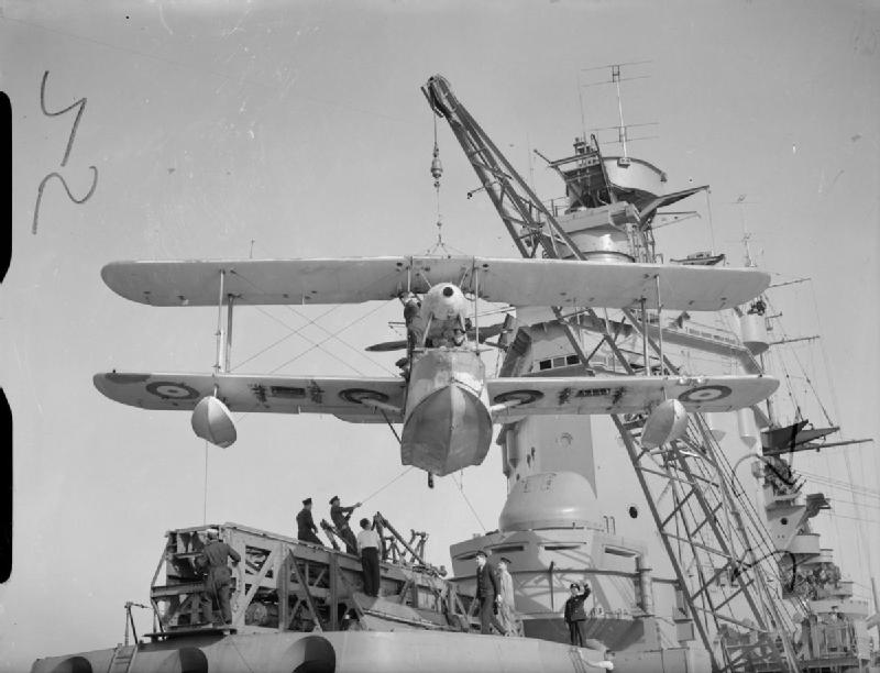 The Royal Navy during the Second World War A Supermarine Walrus amphibious aircraft is hoisted on to the catapult on board HMS RODNEY prior to launch. The battleship's superstructure can be seen in the background.